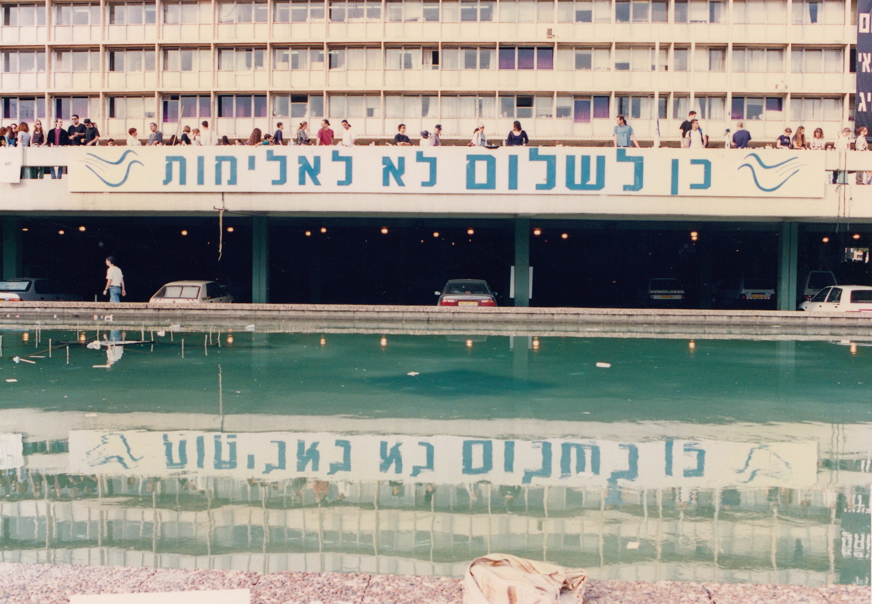 Mourning on Rabin